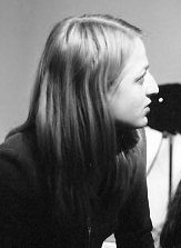 on the set of Black Sun